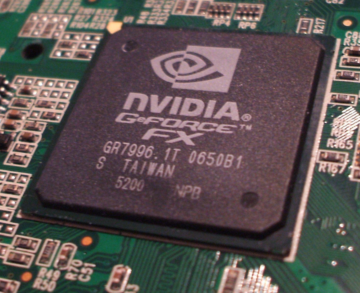 A photo of the Geforce FX5200 GPU. This picture was taken by contributor.